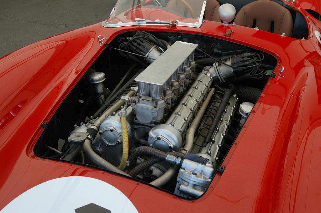 Category:1958 Ferrari 312S/412MI s/n 0744 at Monterey Historics 2008